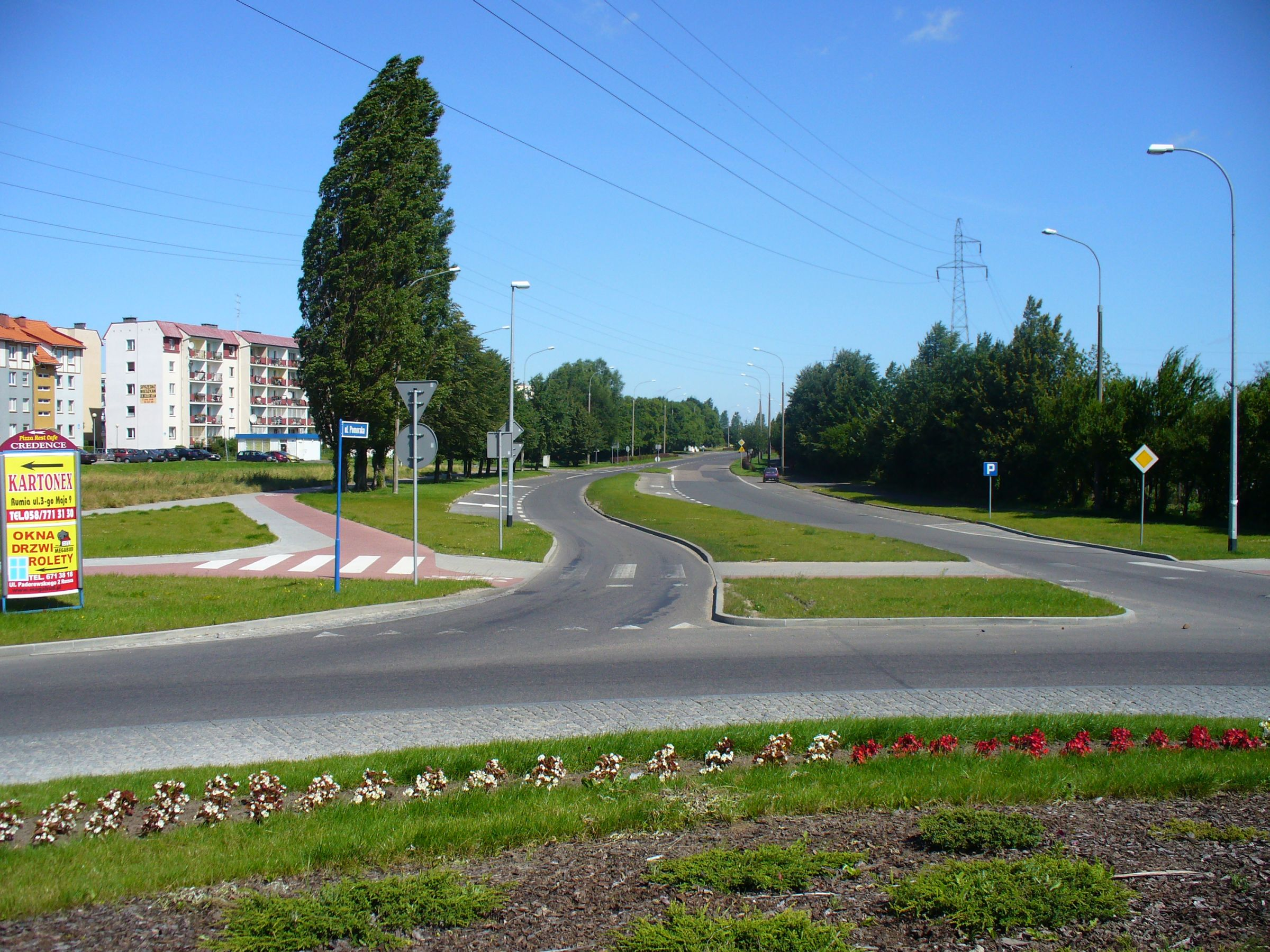 Rumia, Poland